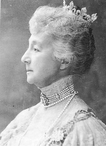 Princess Françoise d'Orléans, Duchess of Chartres.